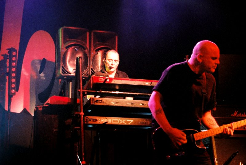 The Stranglers @ Big Band Cafe - Herouville-Saint-Clair